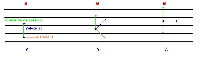 Paint showing how the geostrophic wind is generated